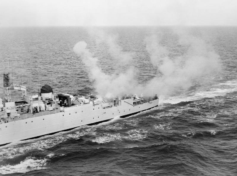 The Royal Navy Type 15 frigate HMS Grenville (F197) fires her "Limbo" Mark 10 anti-submarine mortar during a "Shop Window" exercise, a periodic display of naval operations. The mortar which has just been fired is situated in the after deck and projects a form of depth charge high over the bows.